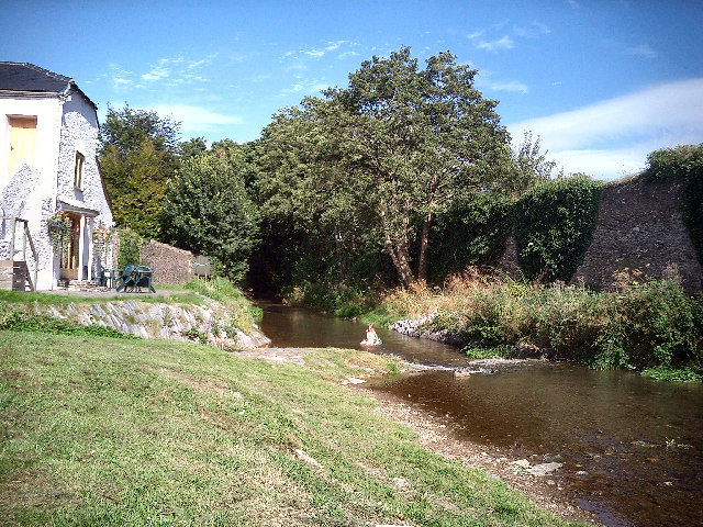 Harbertonford. The Harbourne River at Harbertonford, looking eastward.